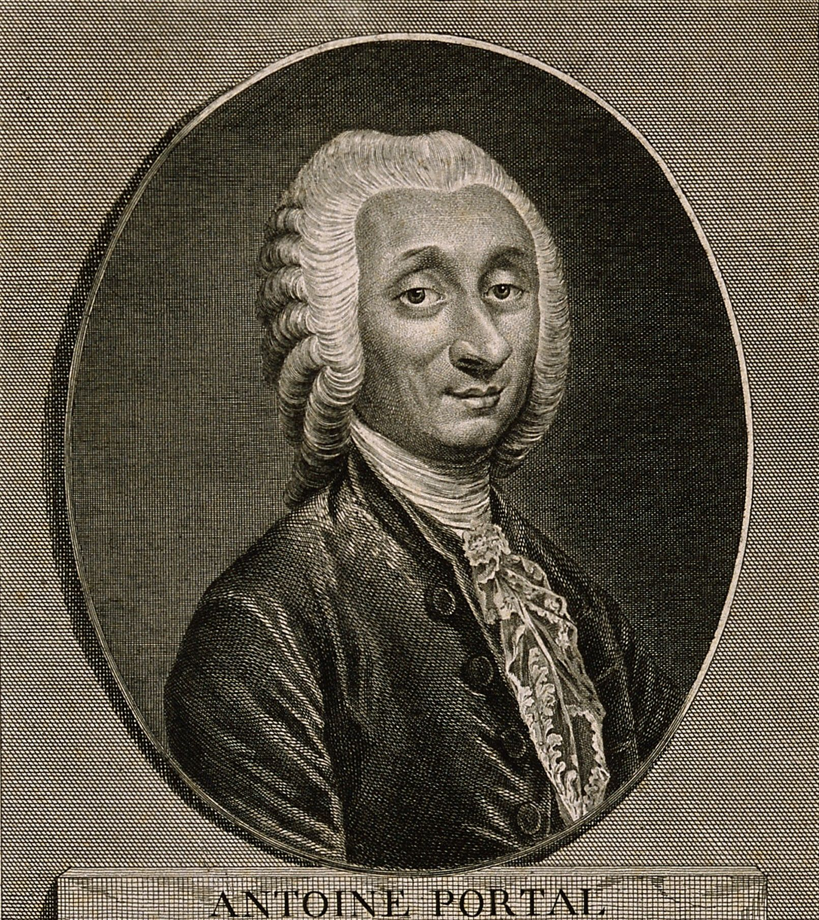 V0004750 Antoine, Baron Portal. Line engraving by J. P. Dupin, junior Credit: Wellcome Library, London. Wellcome Images Antoine, Baron Portal. Line engraving by J. P. Dupin, junior, 1782, after A. Pujos, 1781. Published: - Copyrighted work available under Creative Commons Attribution only licence CC BY 4.0